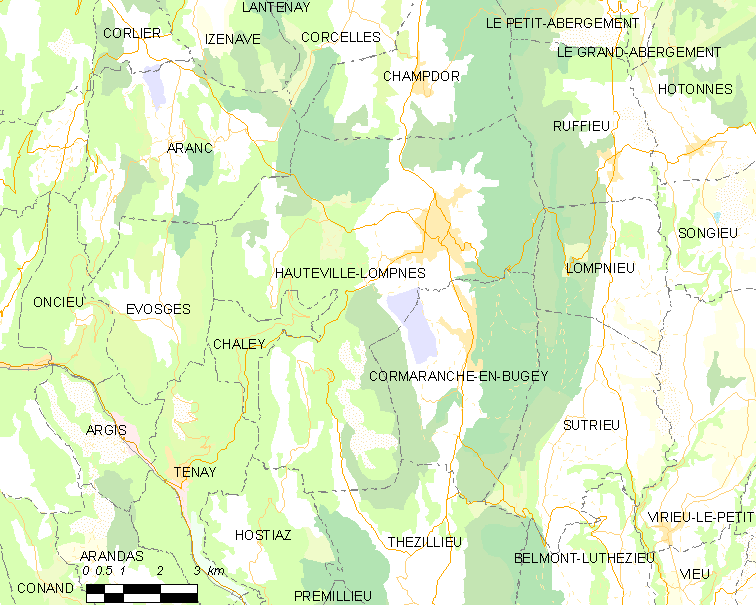 Map of French commune: Hauteville-Lompnes Map commune FR insee code 01185.png